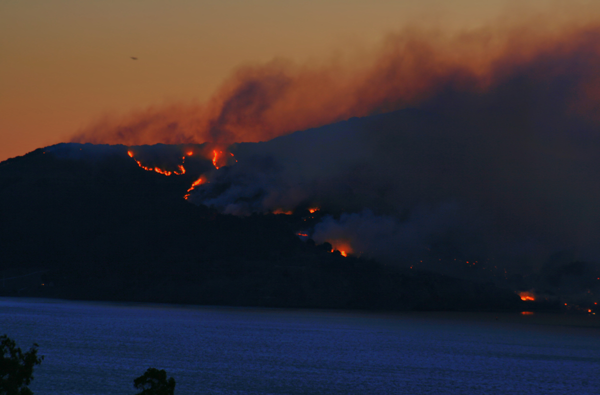 Wildfire on Angel Island